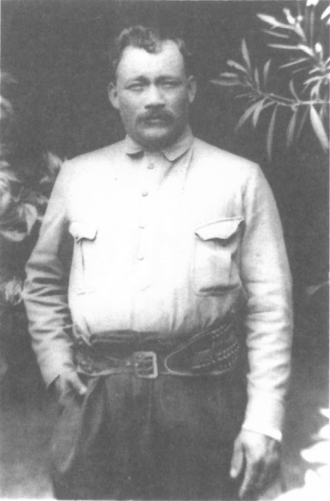 Ernesto García in later life